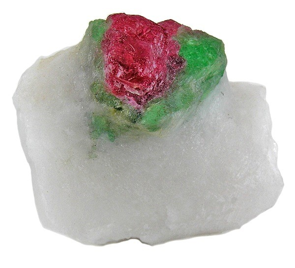 Spinel, Pargasite, marble Locality: Luc Yen, Yenbai (Yen Bai) Province, Vietnam (Locality at ) Another specimen of this rare combination from a small batch we got - this is the last of the combo pieces I believe. At any rate, it is amongst the most striking of them, in that the spinel is right on top of the pargasite (a rather rare silicate named for the type locality of Pargas, Finland), and both are perched and centered atop the marble matrix. It looks almost like one of those Renassiance wax seals, just a bit more 3-dimensional! 4.5 x 3.5 x 3.5 cm